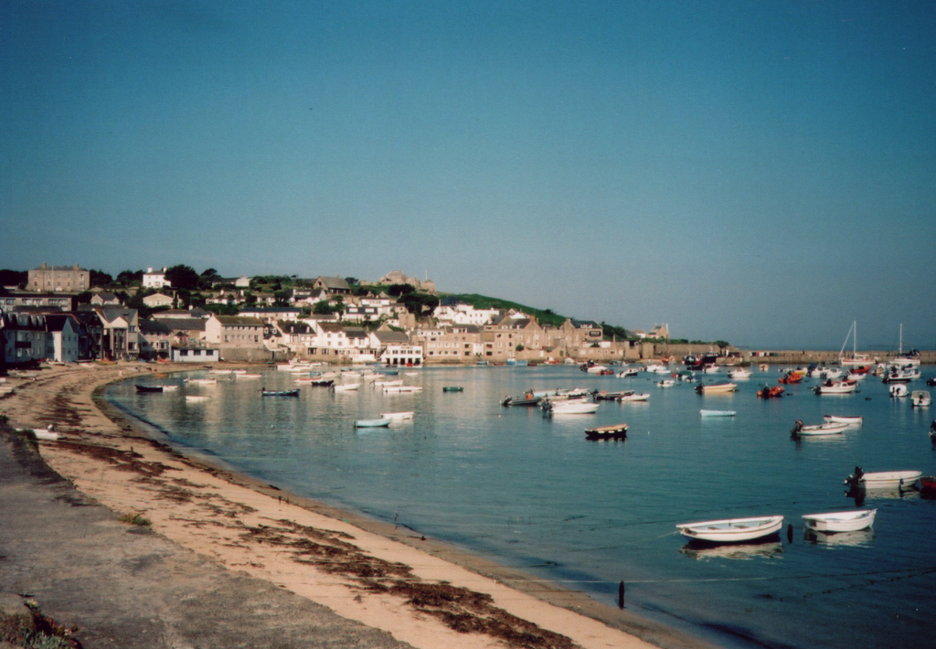 Hugh Town, St Mary's, Isles of Scilly, Cornwall.